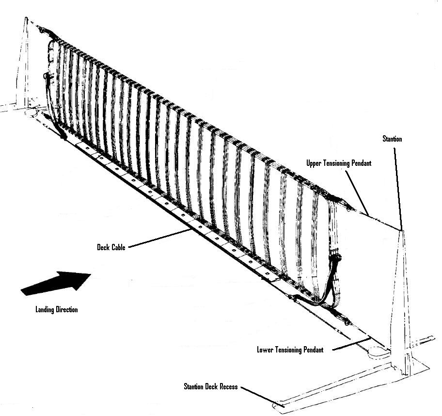 Diagram of US aircraft carrier barricade.